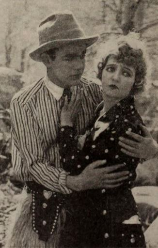 Still from the American western film The White Rider (1920) with Joe Moore and Eileen Sedgwick, on page 88 of the September 11, 1920 Exhibitors Herald.